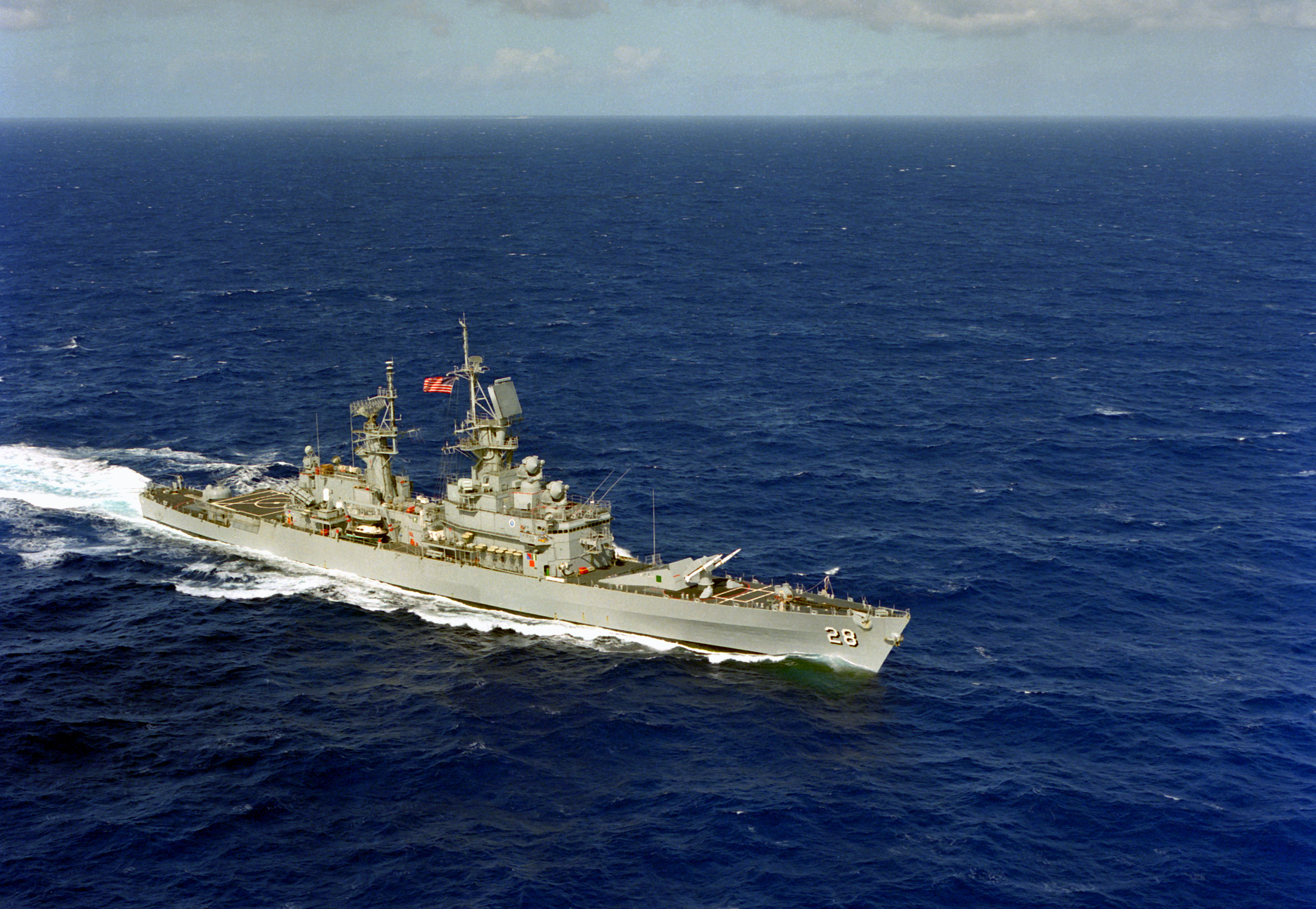 The U.S. Navy guided missile cruiser USS Wainwright (CG-28) underway in the Atlantic Ocean on 16 October 1992. Wainwright was en route to the Mediterranean Sea as part of the aircraft carrier USS John F. Kennedy (CV-67) battle group.